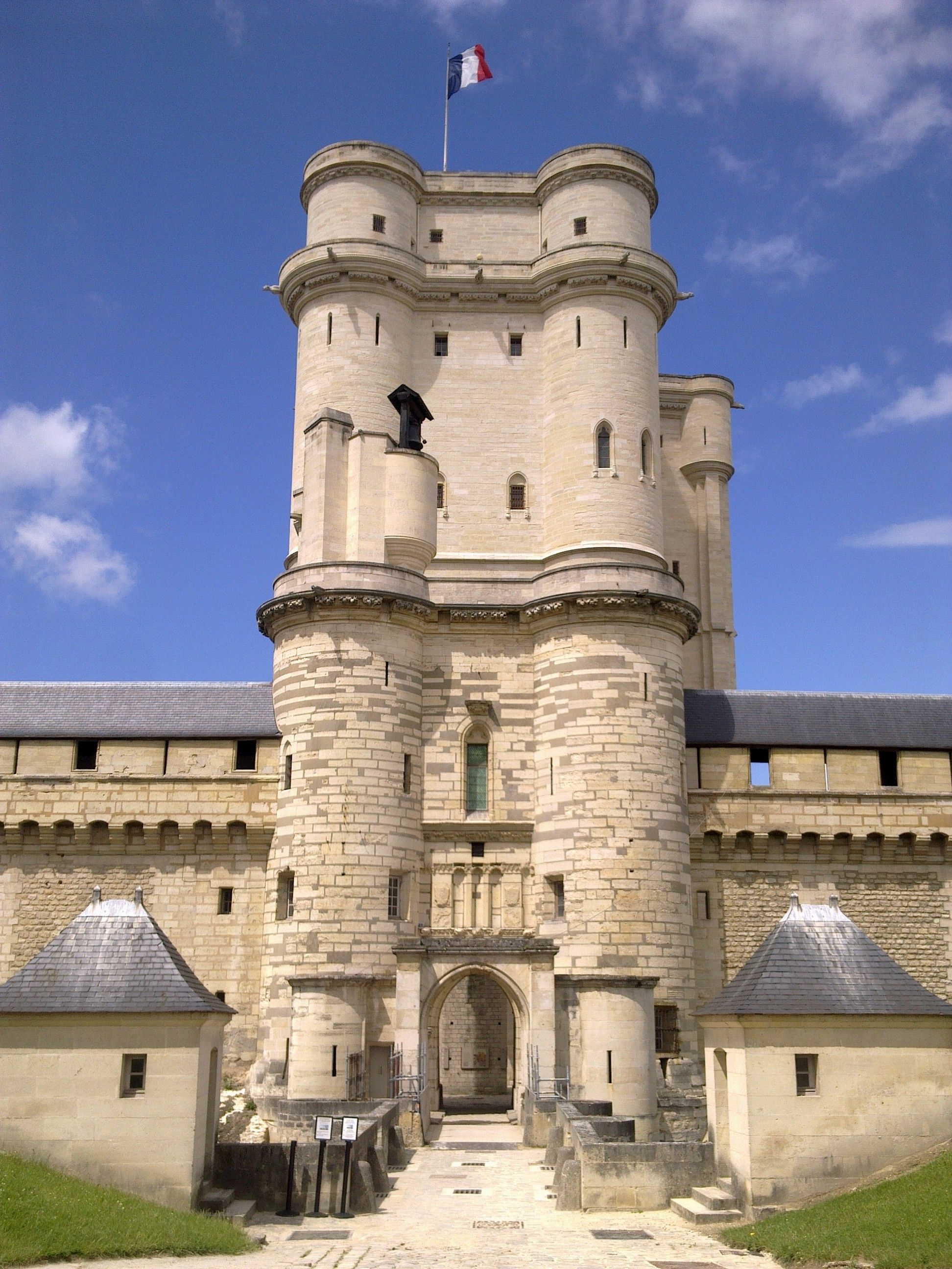 The Donjeon of Charles V of France in Chateau de Vincennes, Paris